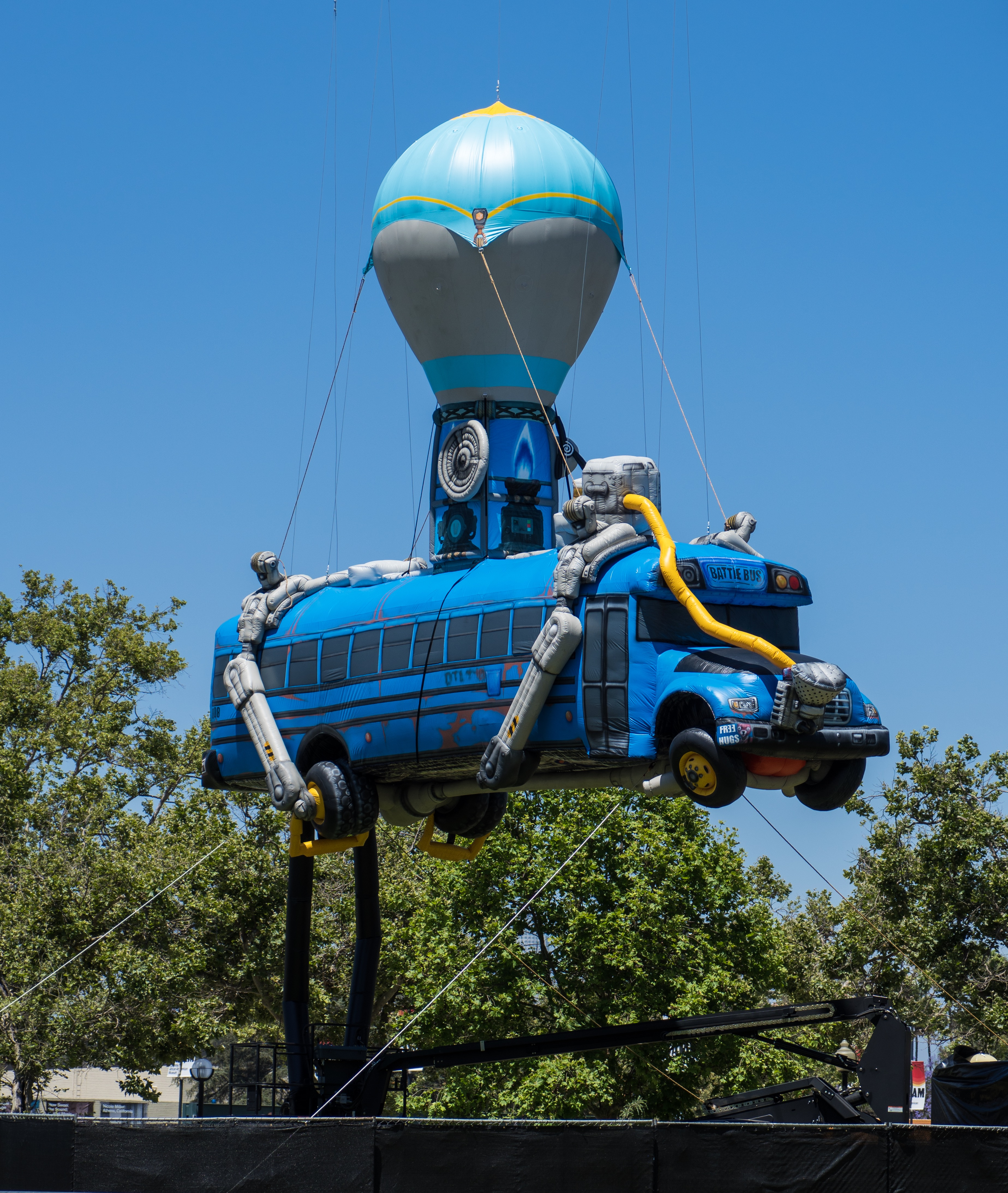 Trash, Thats It